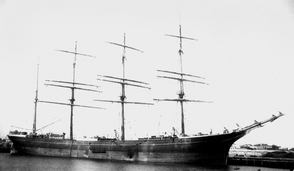 Omega (ship) At Calais, 1949. Ex. Drumcliff. (Information supplied with photograph).